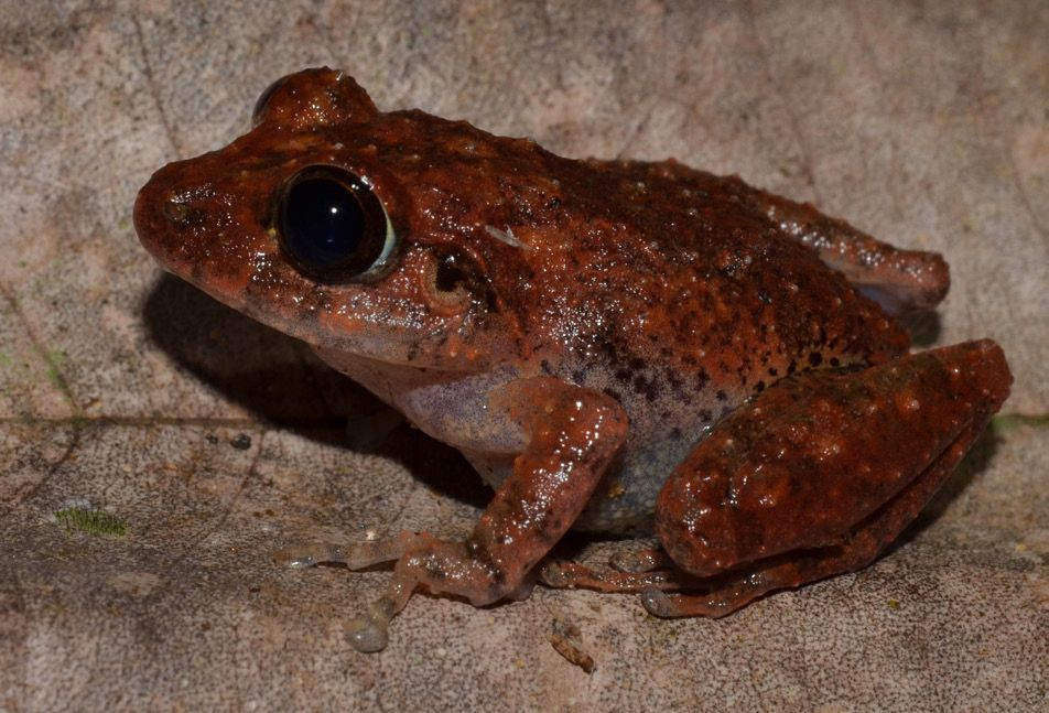 Pseudophilautus conniffae female paratype from Dediyagala Forest Reserve, Sri Lanka